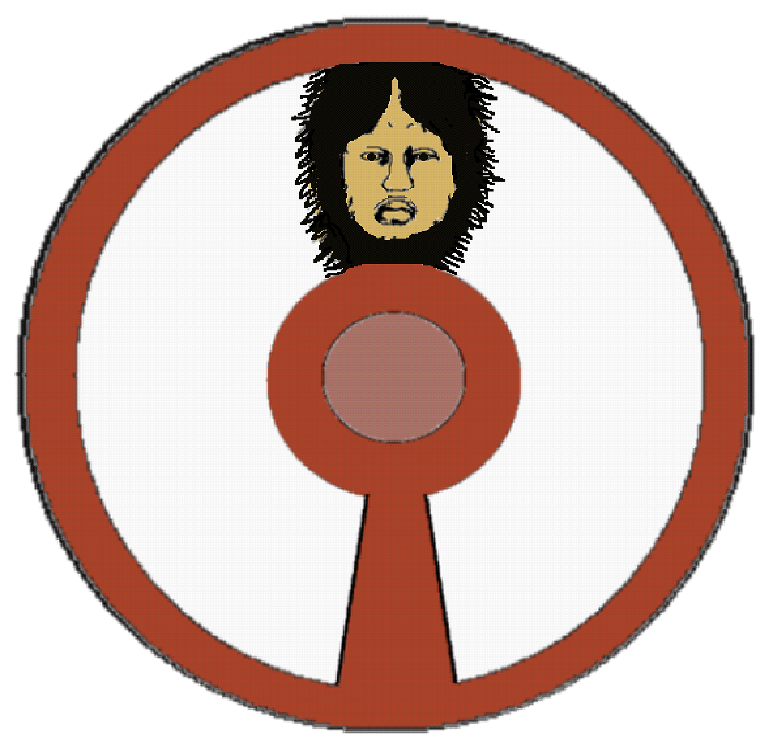 Shield pattern o.t. Tubantes, one of the auxilia palatina units in the Magister Peditum's infantry roster, and assigned to the Comes Hispenias (Parisian Manuscript), Notitia Dignitatum, 5th century.